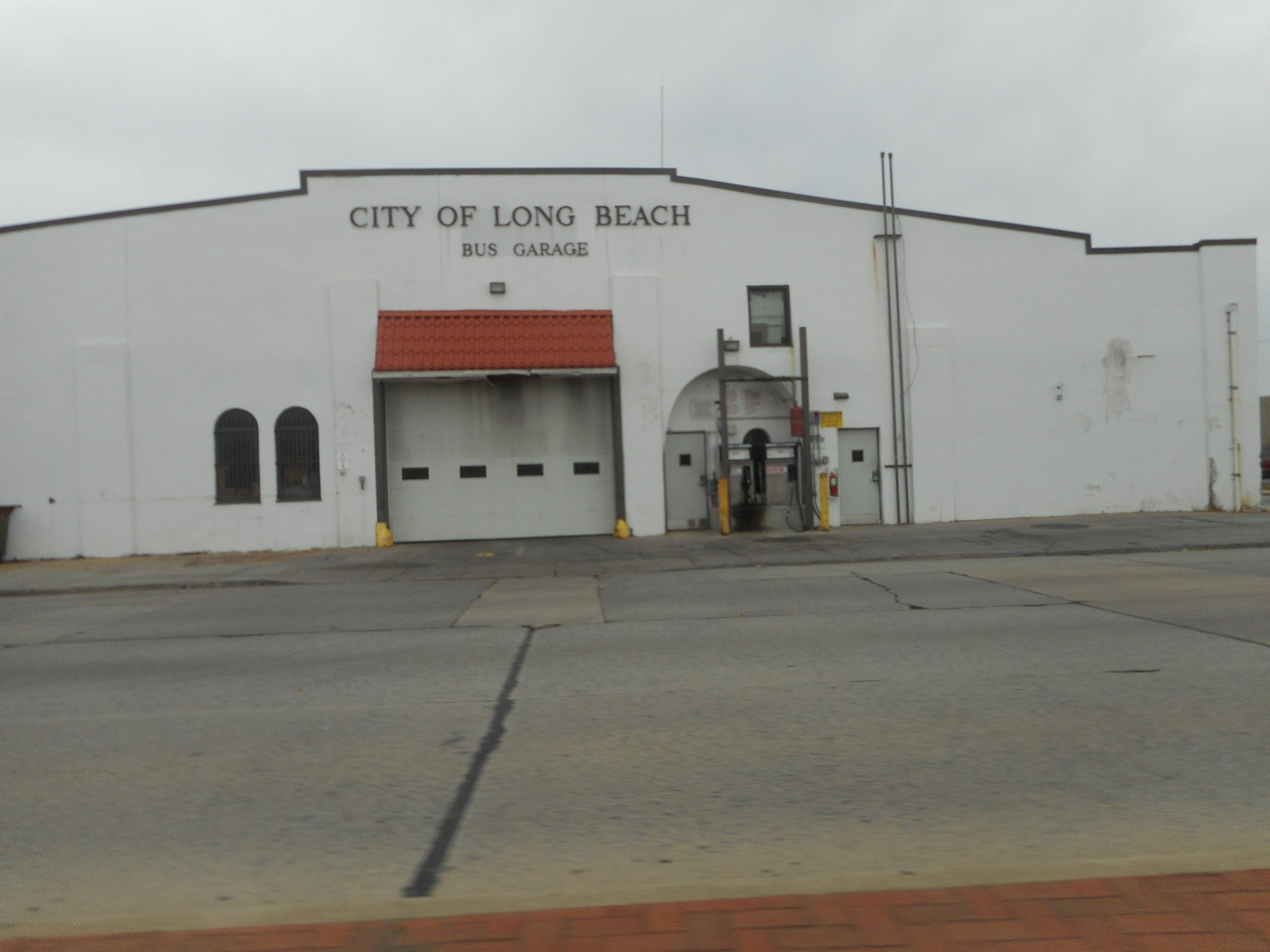 Northern half of a single pair of garages owned by the City of Long Beach on the southwest corner of Long Beach Boulevard and East Pine Street in Long Beach, New York. The building is used for storing city buses, and looks like an old trolley barn.